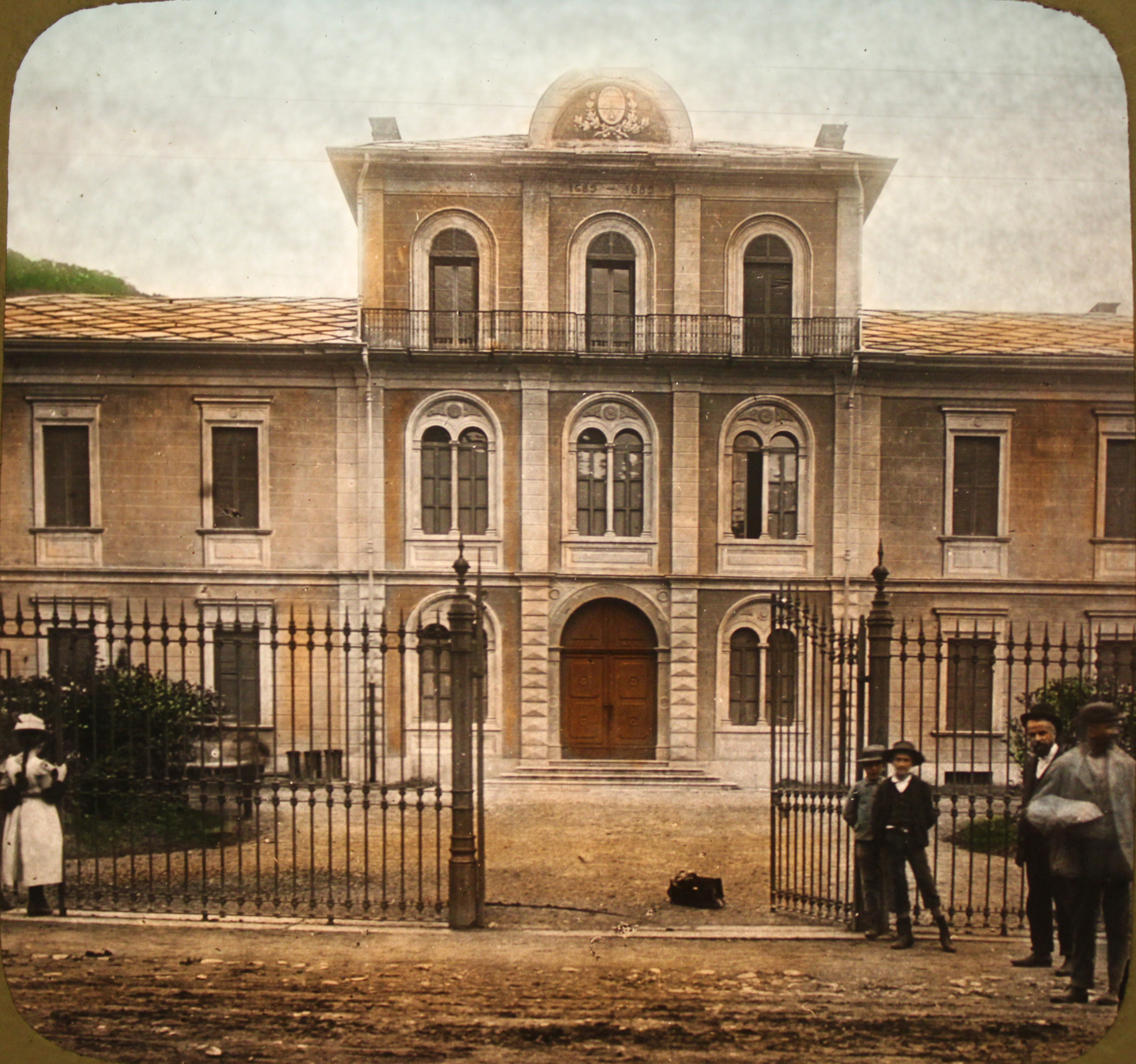 Waldensian Museum at Torre Pellice, Piedmont, Italy